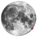 Description: Location of the Humboldt crater on the Moon. Source: This is a modified version of the photo obtained from the NASA Planetary Photojournal. It was modified by RJHall. Width: 150 pixels Height: 150 pixels